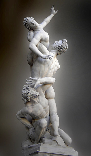 Rapt of the Sabine Women or Rape of the Sabine Women (1574-82), by Giambologna, Loggia dei Lanzi, Florence, Italy.